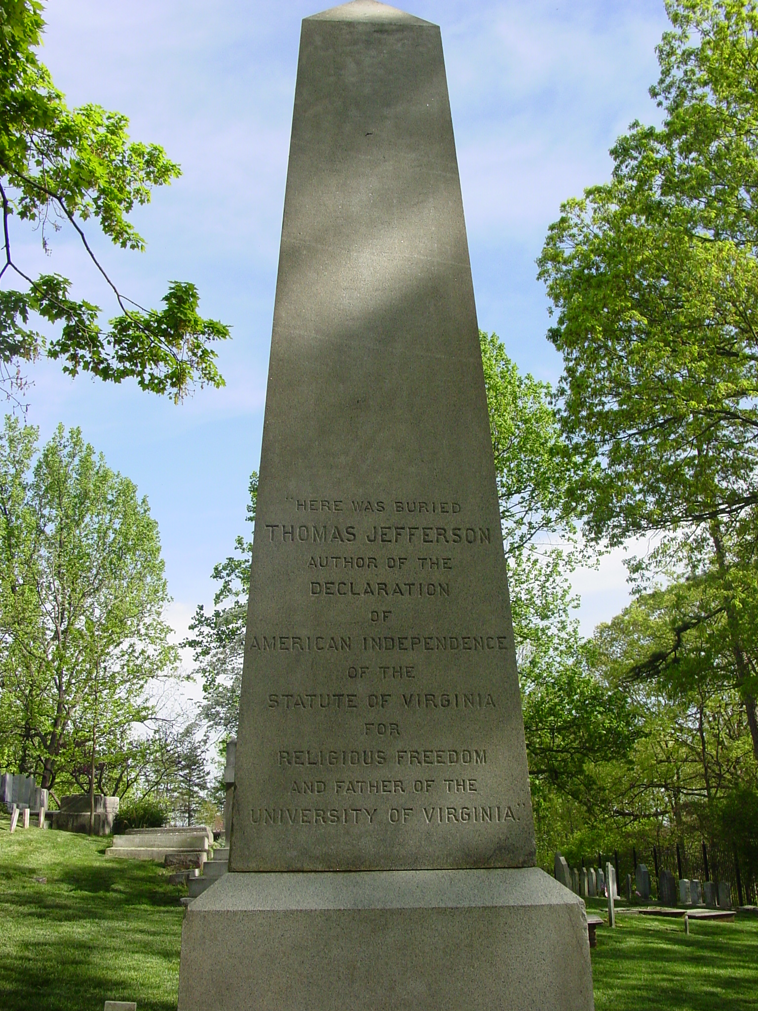 Thomas Jefferson's Gravesite at Monticello